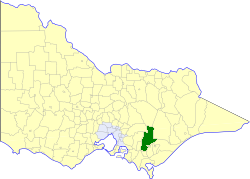 Location of the Shire of Narracan within Victoria.